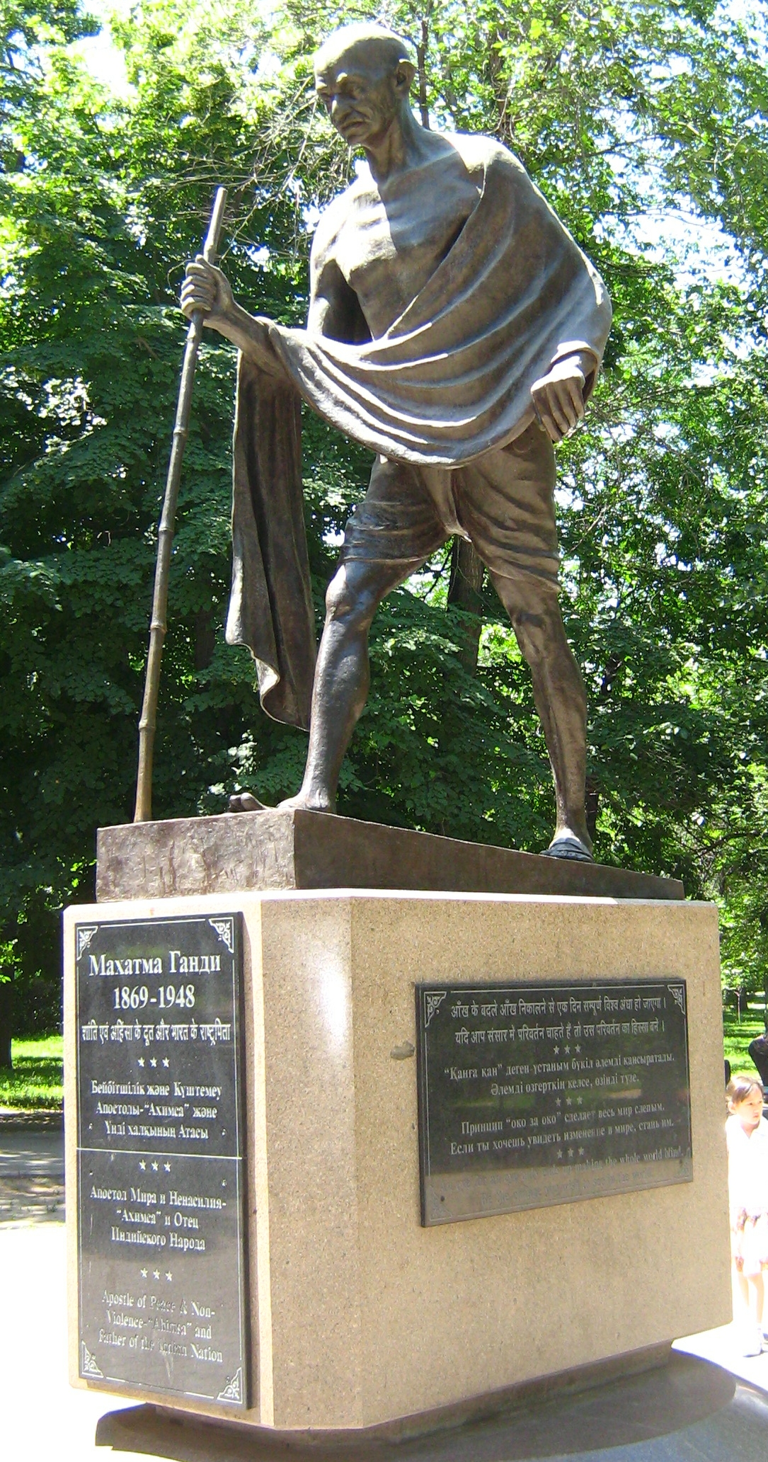 Mahatma Gandhi statue in Almaty, kazakhstan